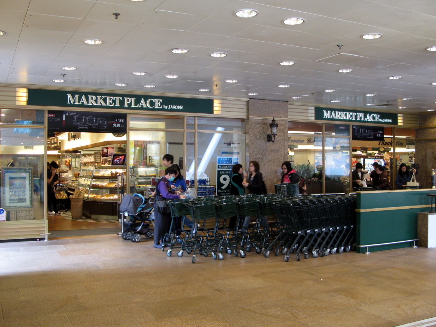 Market Place Telford Plaza Store Market Place by Jasons 於德福廣場分店